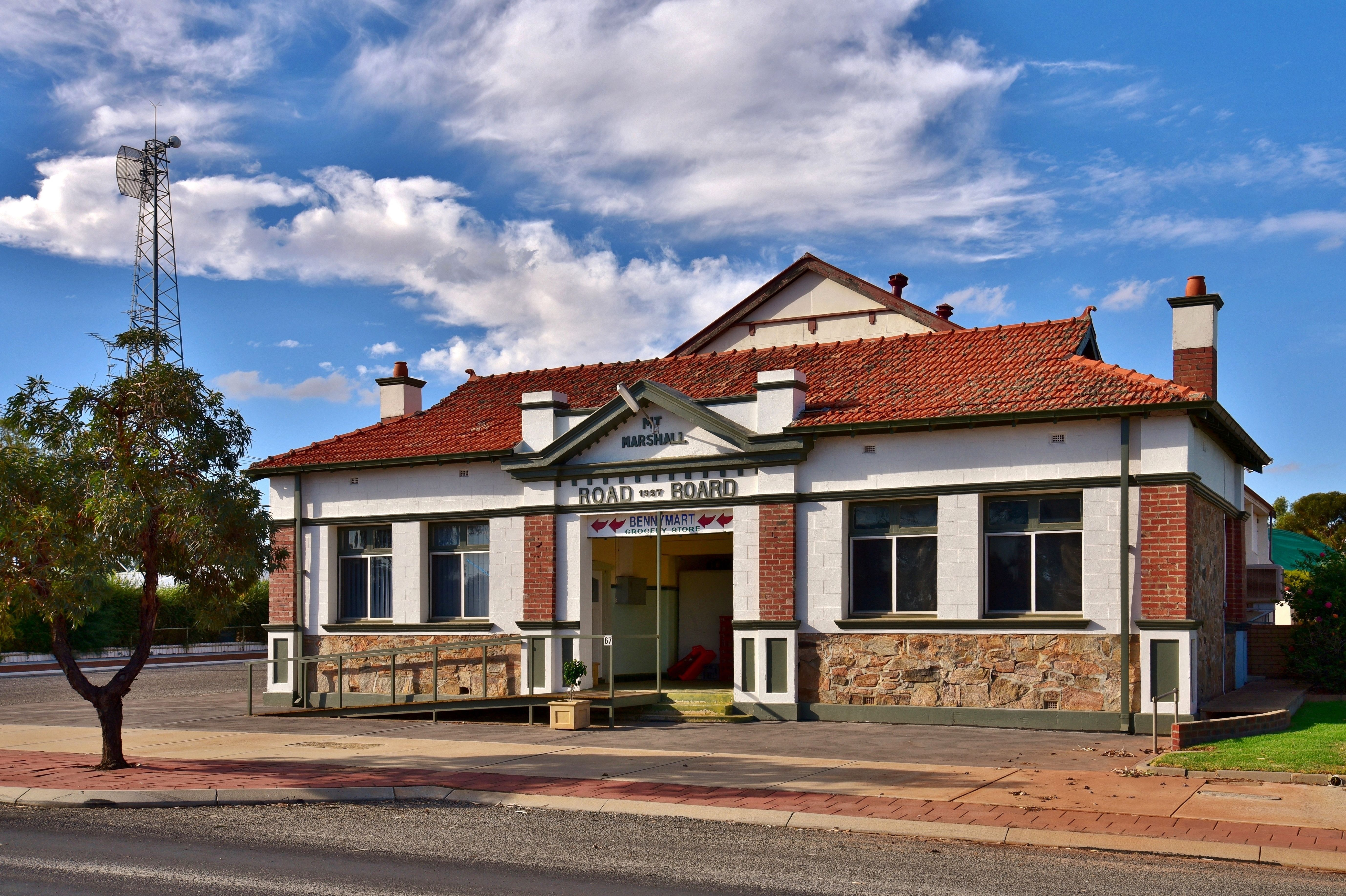 View of the Mount Marshall Shire Hall, Bencubbin, Western Australia